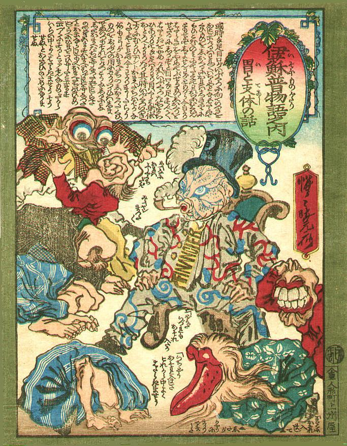 Kawanabe Kyosai's "The lazy one in the middle, a satirical interpretation of Aesop's fable of "The belly and the other members" in Isoho Monogotari (1870-80)